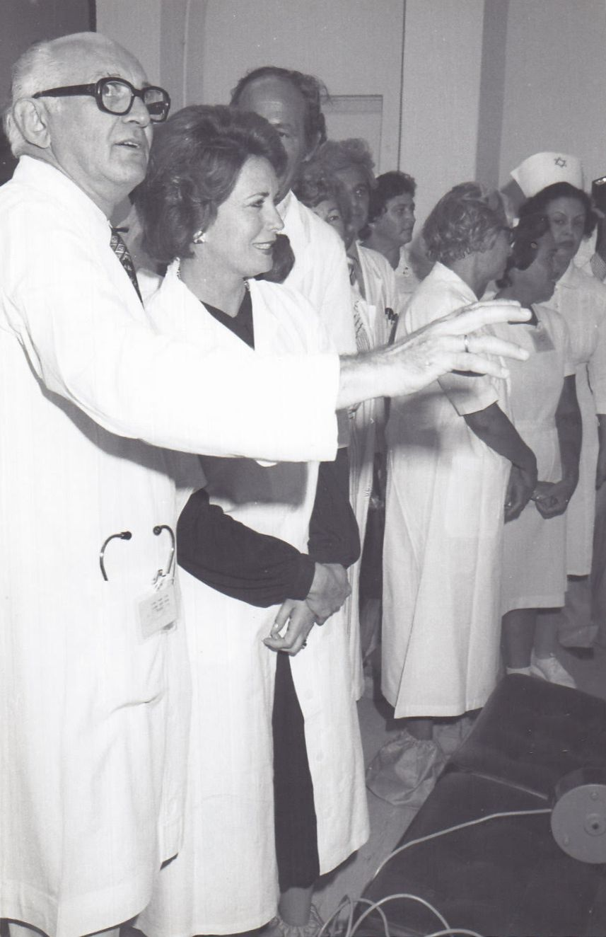 ביקור גב' סאדאת